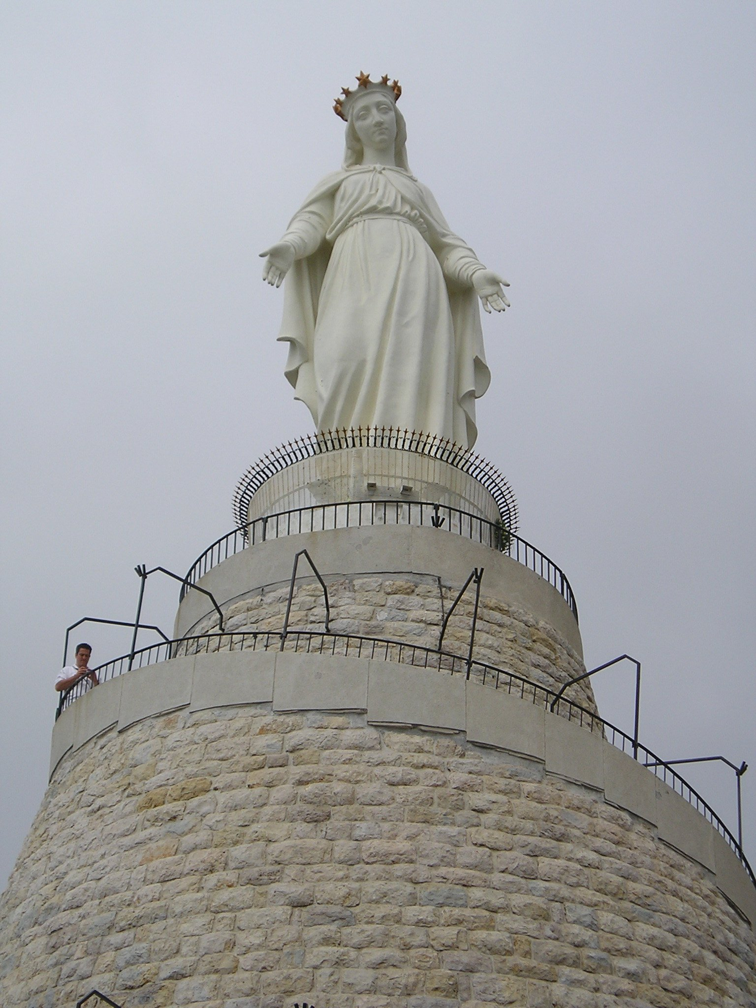 Harissa above Jounieh, Lebanon - Virgin of Lebanon statue